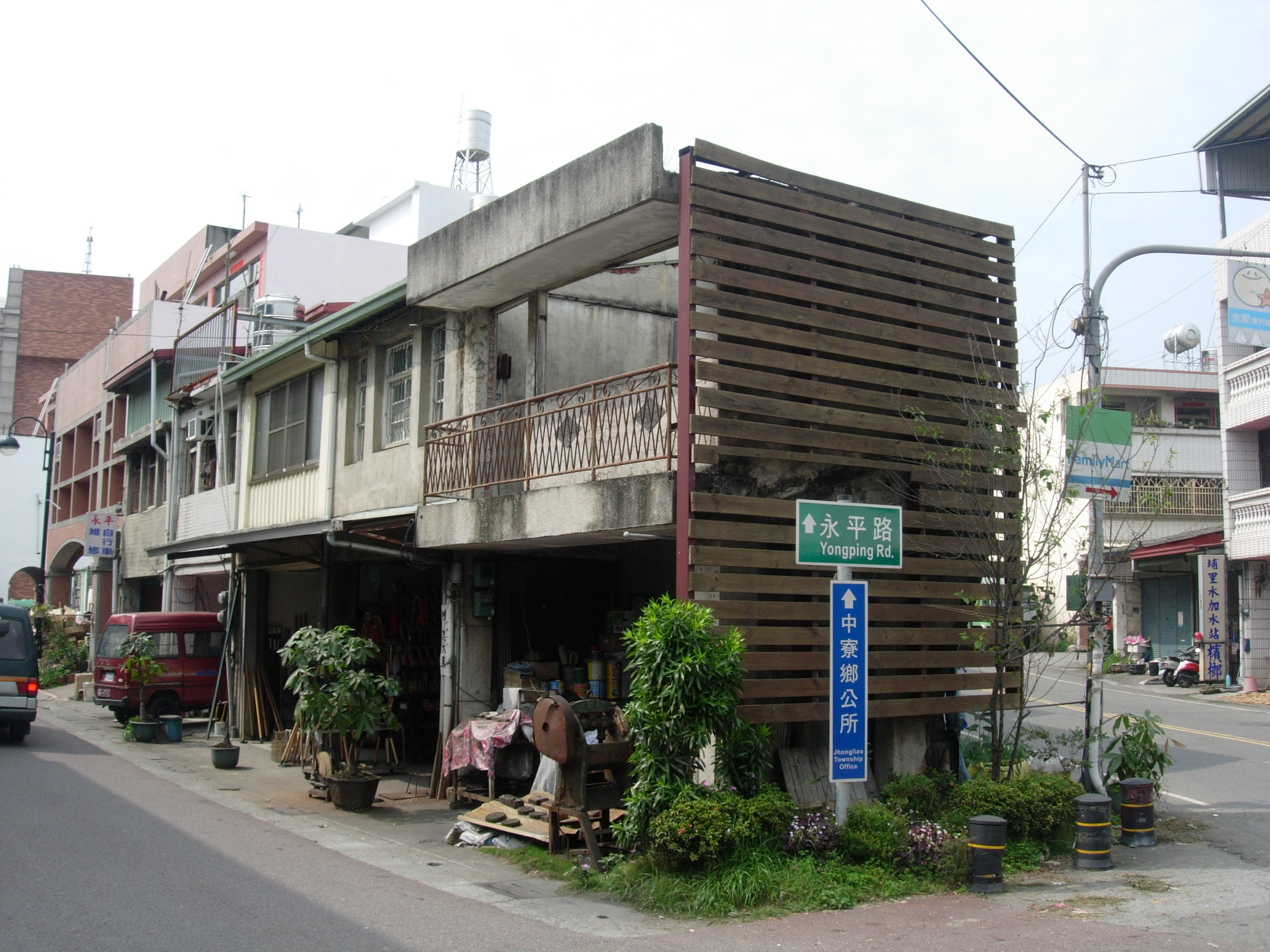 Jhongliao Yungping Old Street